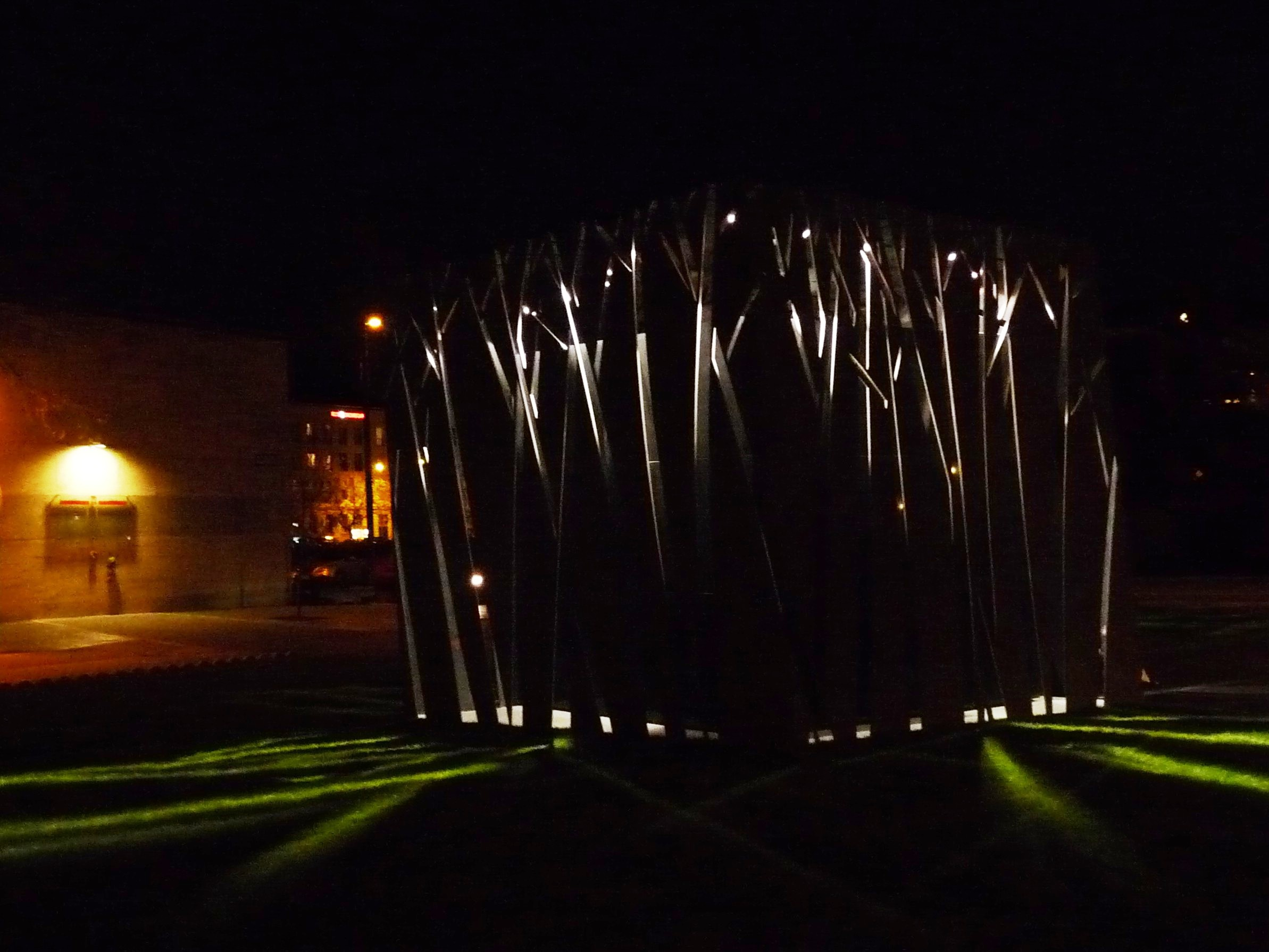 Katyń memorial in Budapest at night. The cube-shaped memorial imitating a forest is lit from within. The authors are Mr. Géza Varga-Szeri sculptor and Mr. Zoltán Varga-Szeri architect. Its inauguration took place on 8th April 2011.